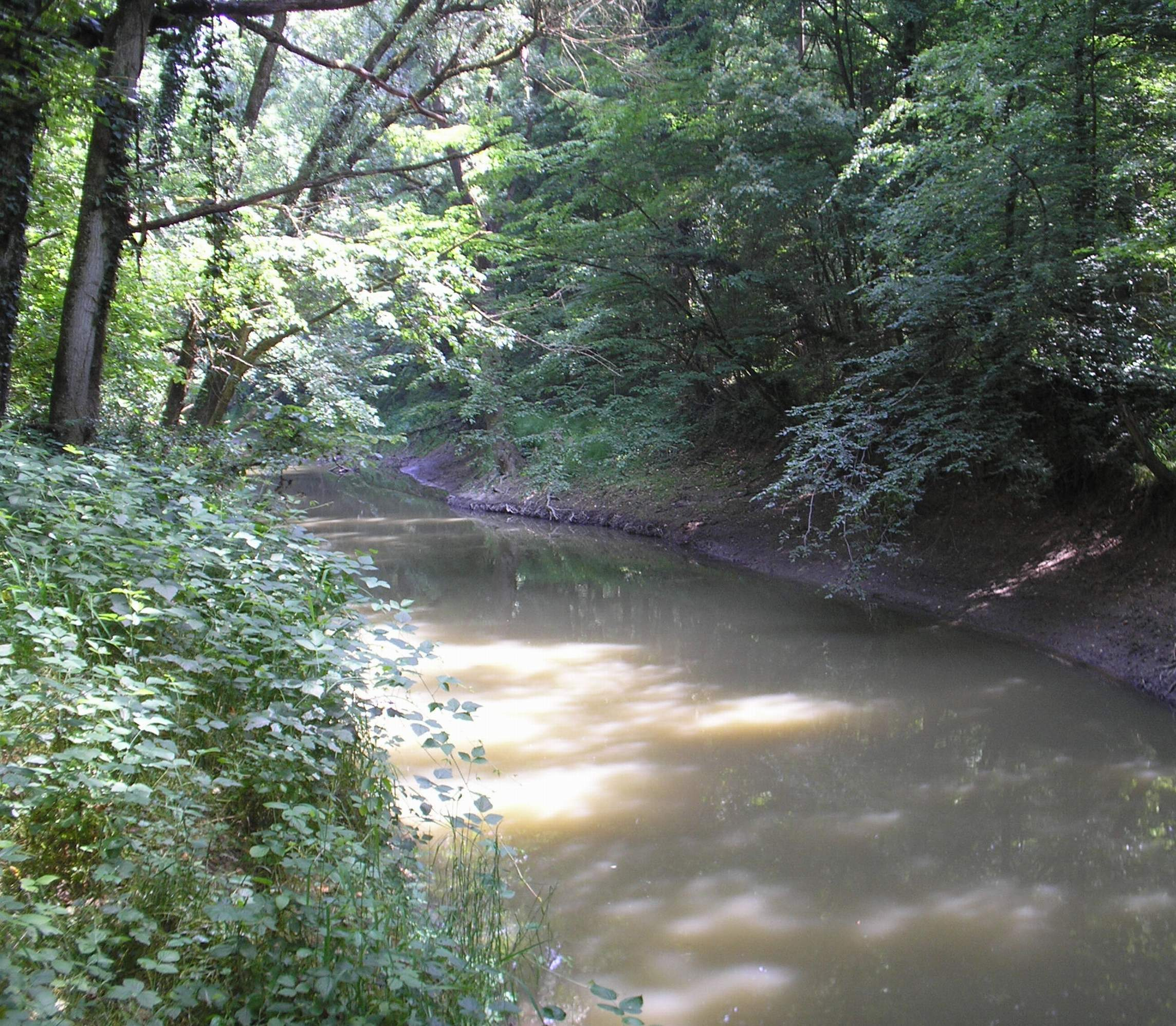 The river Ilova in CroatiaHrvatski: Rijeka Ilova protječe kroz šumu Ilovski lug kraj sela Veliko Vukovje u okolici Garešnice.